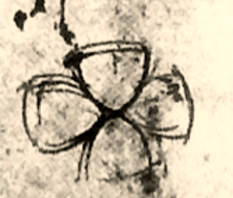 Leonardo's Octant-projection from manuscript